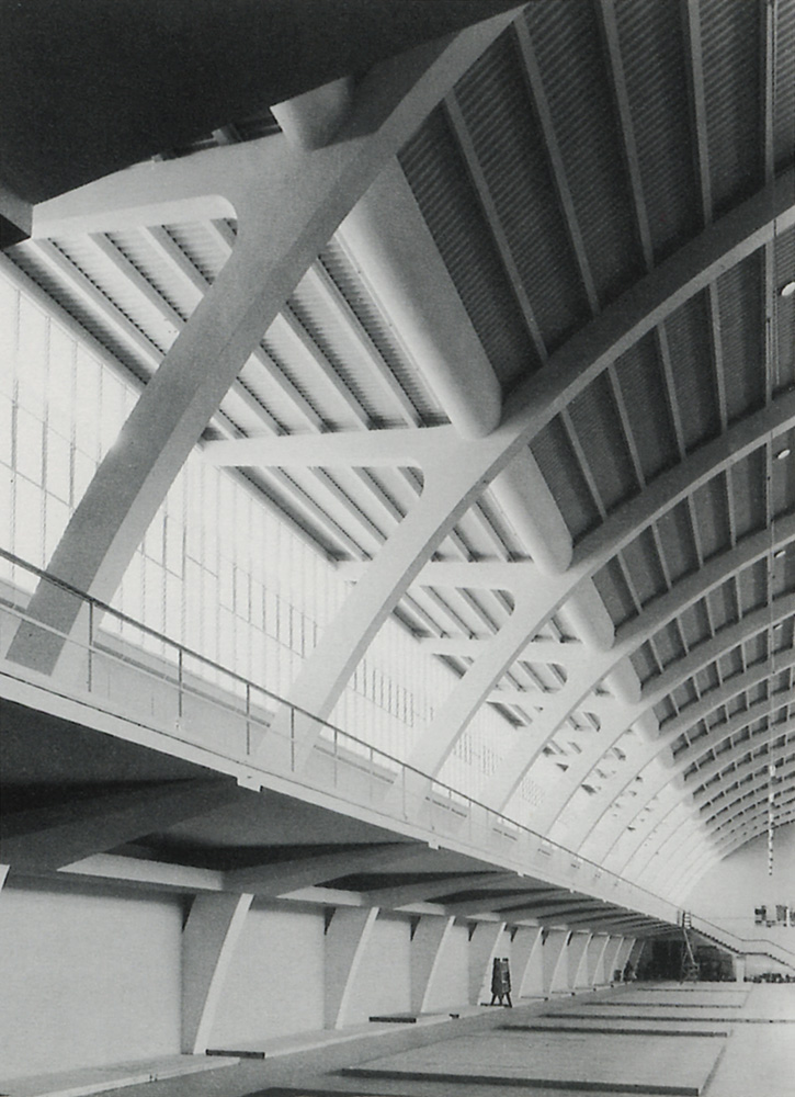 Industries Fair (architecture: Keil do Amaral)